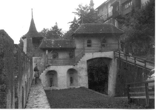 Medieval section of Gruyères. This is a section of wall built-out to protect one of the entrances into the town, and is outside the "real" walls. The author of this image is Oliver White (Photography page) who uploaded this image. I've put it under CC license, but let me know if you need any additional freedoms. Ojw 16:57, 5 Dec 2004 (UTC) See also :Image:Gruyere1.jpg